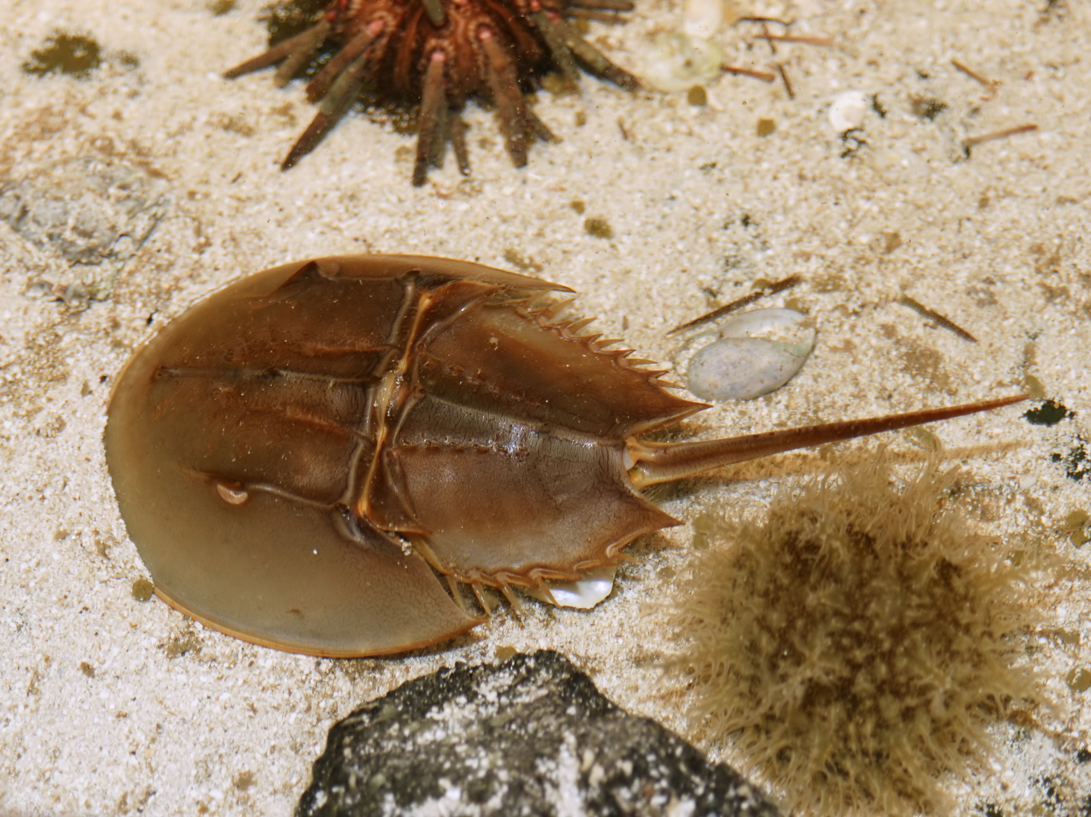 Atlantic horseshoe crab at St. Lucie County Marine Center in Fort Pierce, St. Lucie County, Florida, U.S.A.